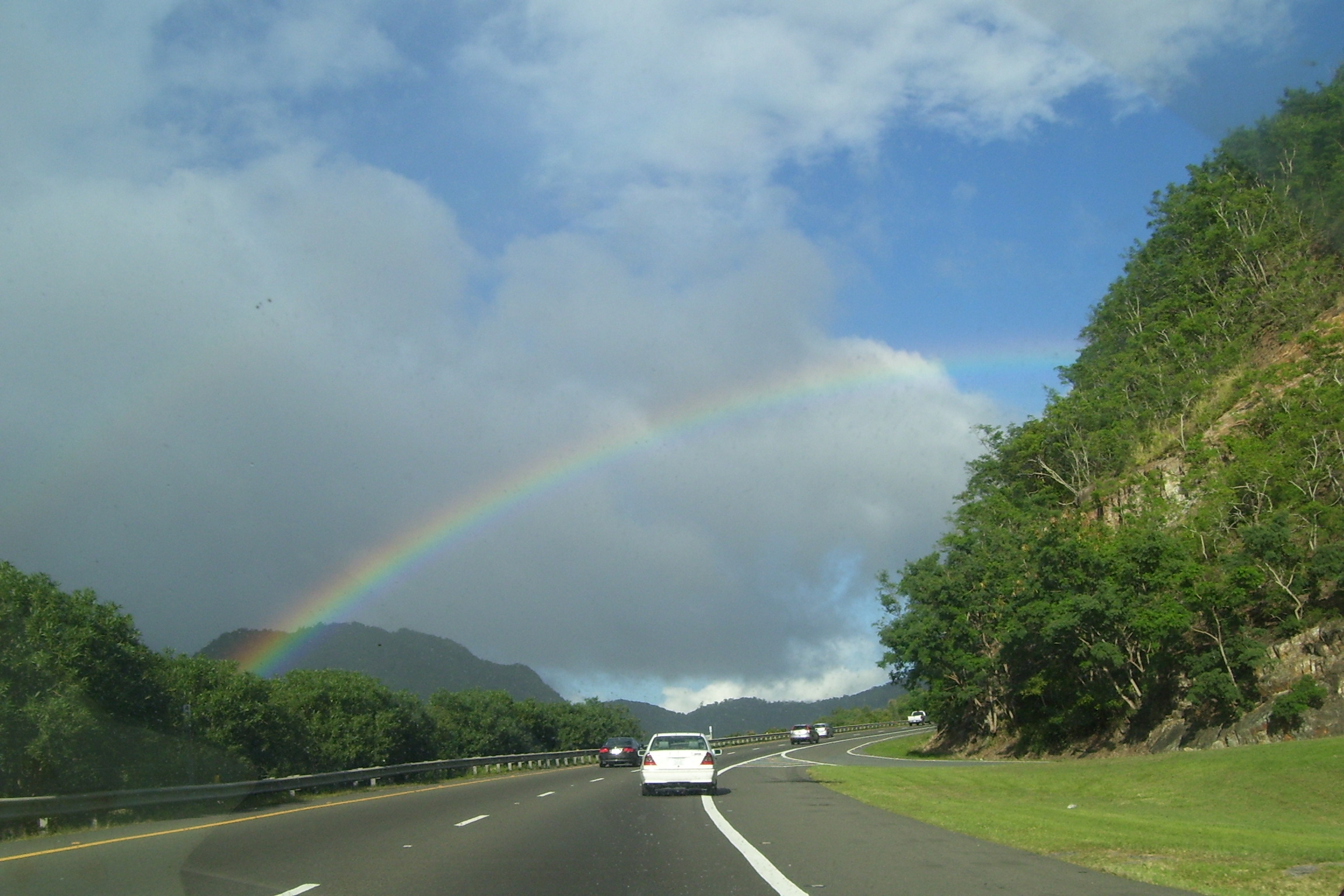 Rainbow over PR-52 highway near towns of Cayey and Salinas, made in brea.